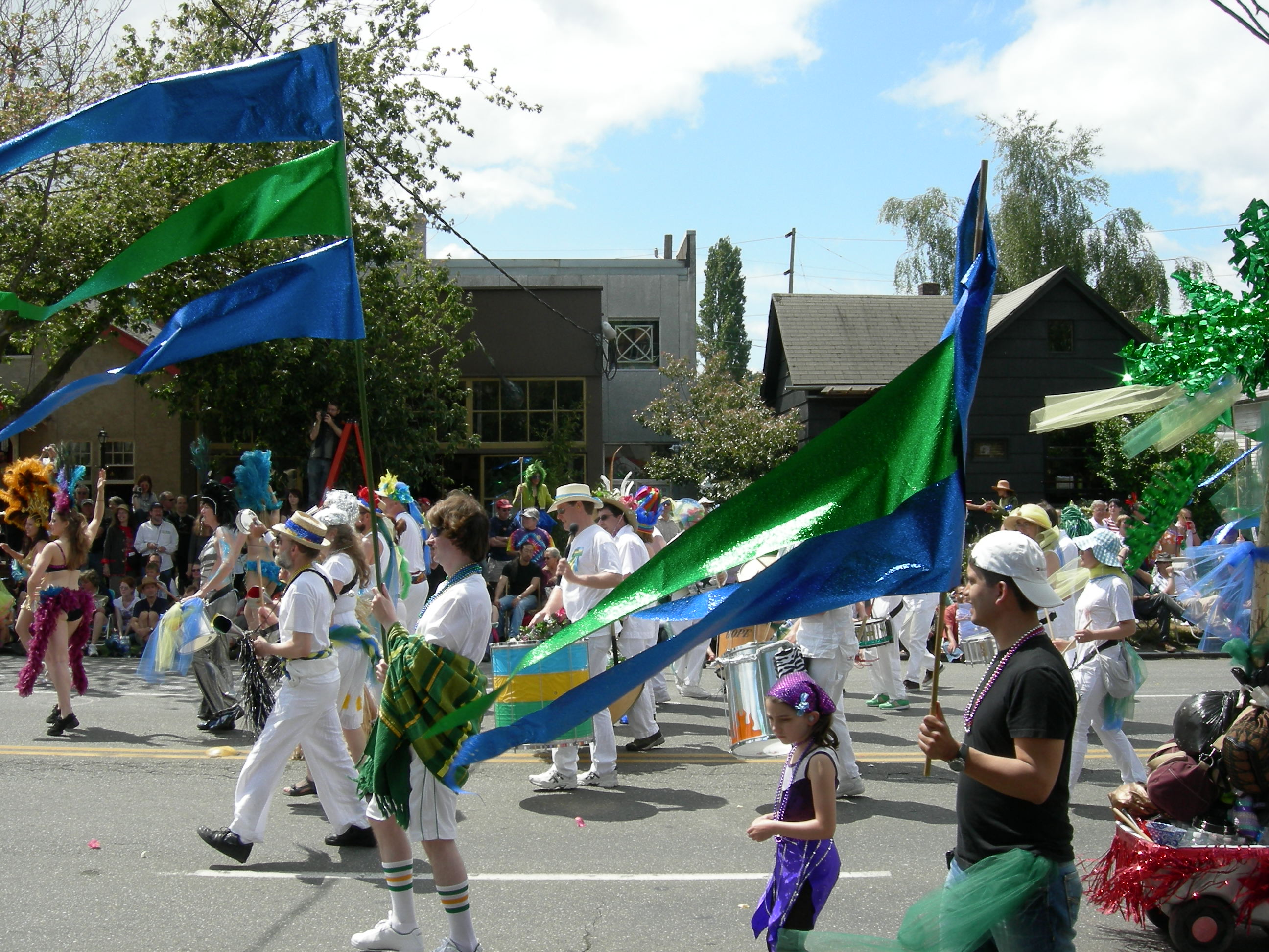 Samba musicians (and, at left, a couple of dancers) near the front of the 2007 Summer Solstice Parade, Fremont Fair, Seattle, Washington.